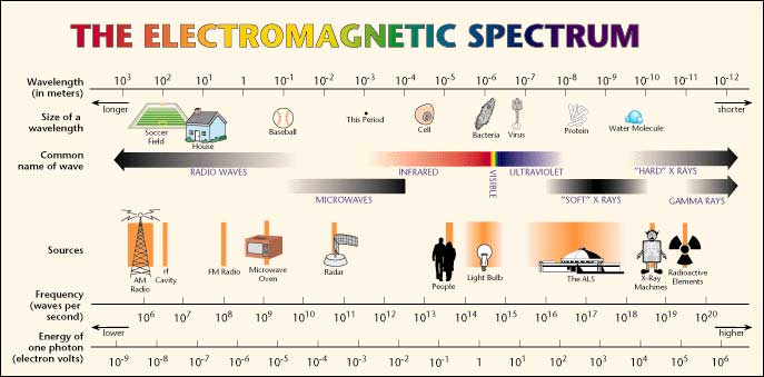 Electromagnetic Spectrum Chart